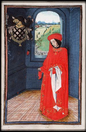 Statuts, Ordonnances et Armorial de l'Ordre de la Toison d'Or (Statutes, Ordonnances and armorial of the Order of the Golden Fleece) Place of origin, date: Southern Netherlands; 1473. Added sections: Southern Netherlands; 1478 or shortly after and 1491 or shortly after Material: Vellum, ff. 86, 249x187 (167x106) mm, 23 lines, littera cursiva (lettre bourguignonne). French. Binding: 18th-century brown leather Decoration: 1 full-page miniature (170x115 mm) with border decoration; 92 miniatures (185/155x120/100 mm); 1 historiated initial (80x90 mm) with border decoration; decorated initials with border decoration (ff., Added section: miniatures ; 4 drawings for miniatures (not finished) Provenance: Presented in 1473 by Gilles Gobet, King of Arms of the Order of the Golden Fleece, to Charles the Bold, Duke of Burgundy and the other Knights during the Chapter of the Order held at Valenciennes; Treasure of the Golden Fleece, Brussls; taken away by the Treasurer C.-F. Humyn (d. 1735) or his daughter C.Ch. de Corte; by legacy to her daughter M.-L. de Corte, wife of Ph.-E. de Poederlé; purchased in 1781 at the Poederlé sale by G.-J- Gérard of Brussels; acquired in 1832 as part of the Gérard collection (no. A 27)